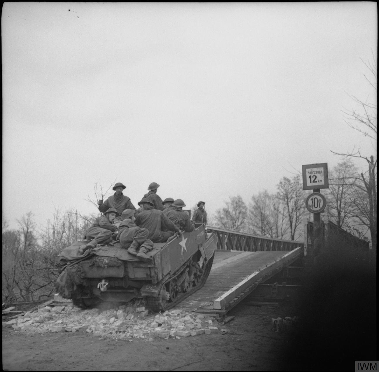 The British Army in North-west Europe 1944-45 A Universal carrier of the 6th Cameronians, 52nd (Lowland) Division, crossing the Dortmund-Ems Canal, 4 April 1945.